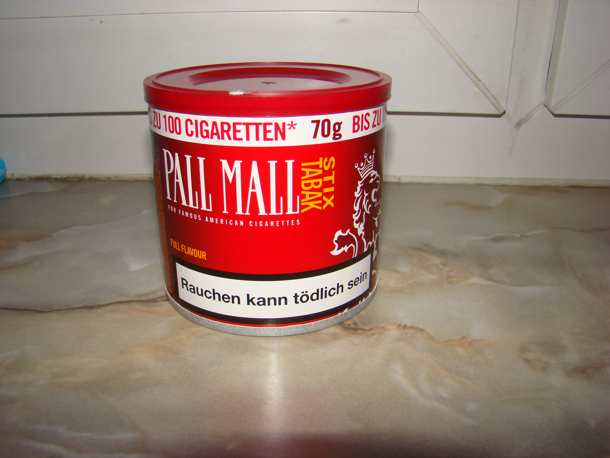 Pall Mall Stix Tobacco Full Flavour 70g